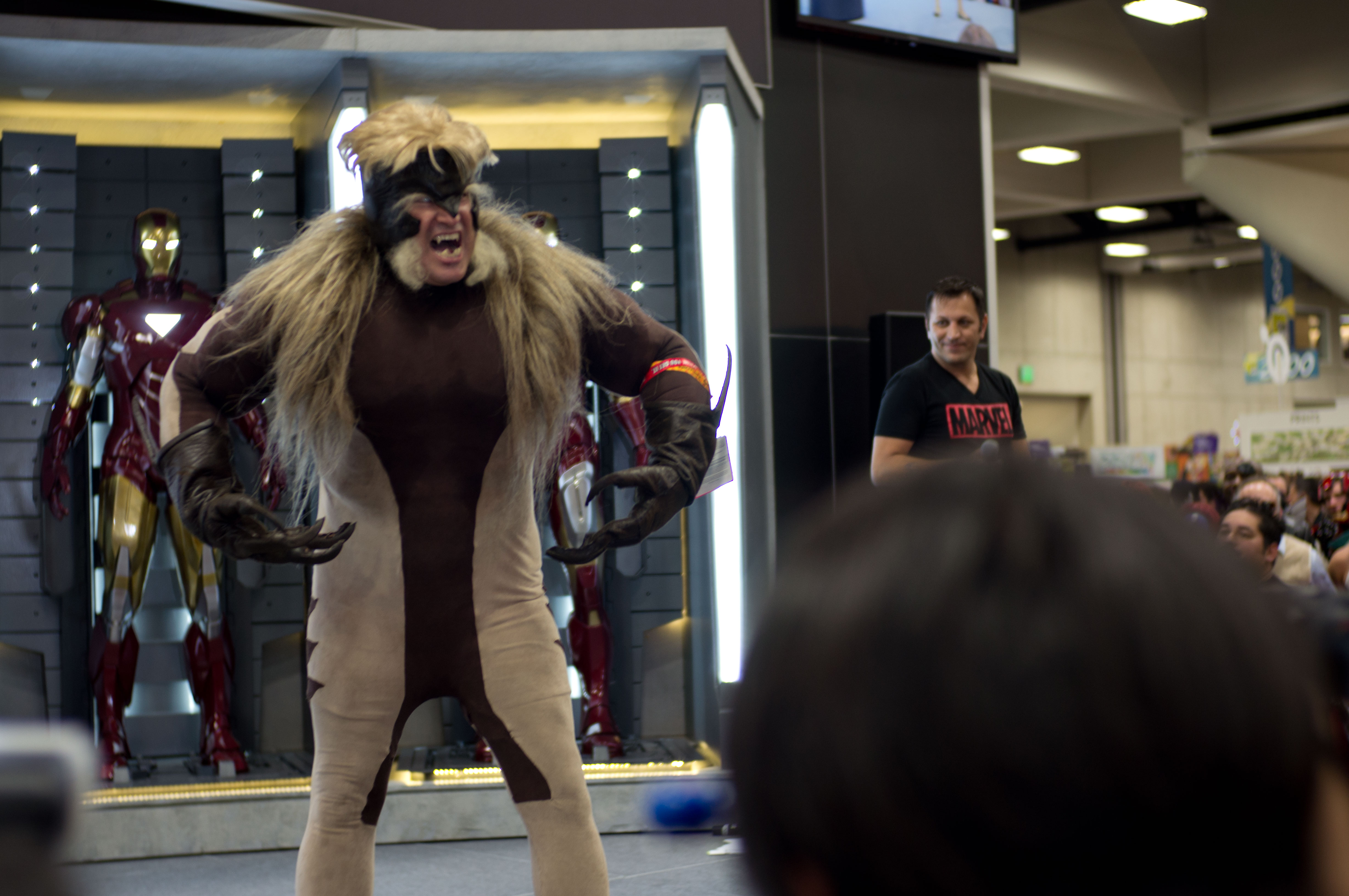 Cosplay at San Diego Comic-Con (SDCC 2012).